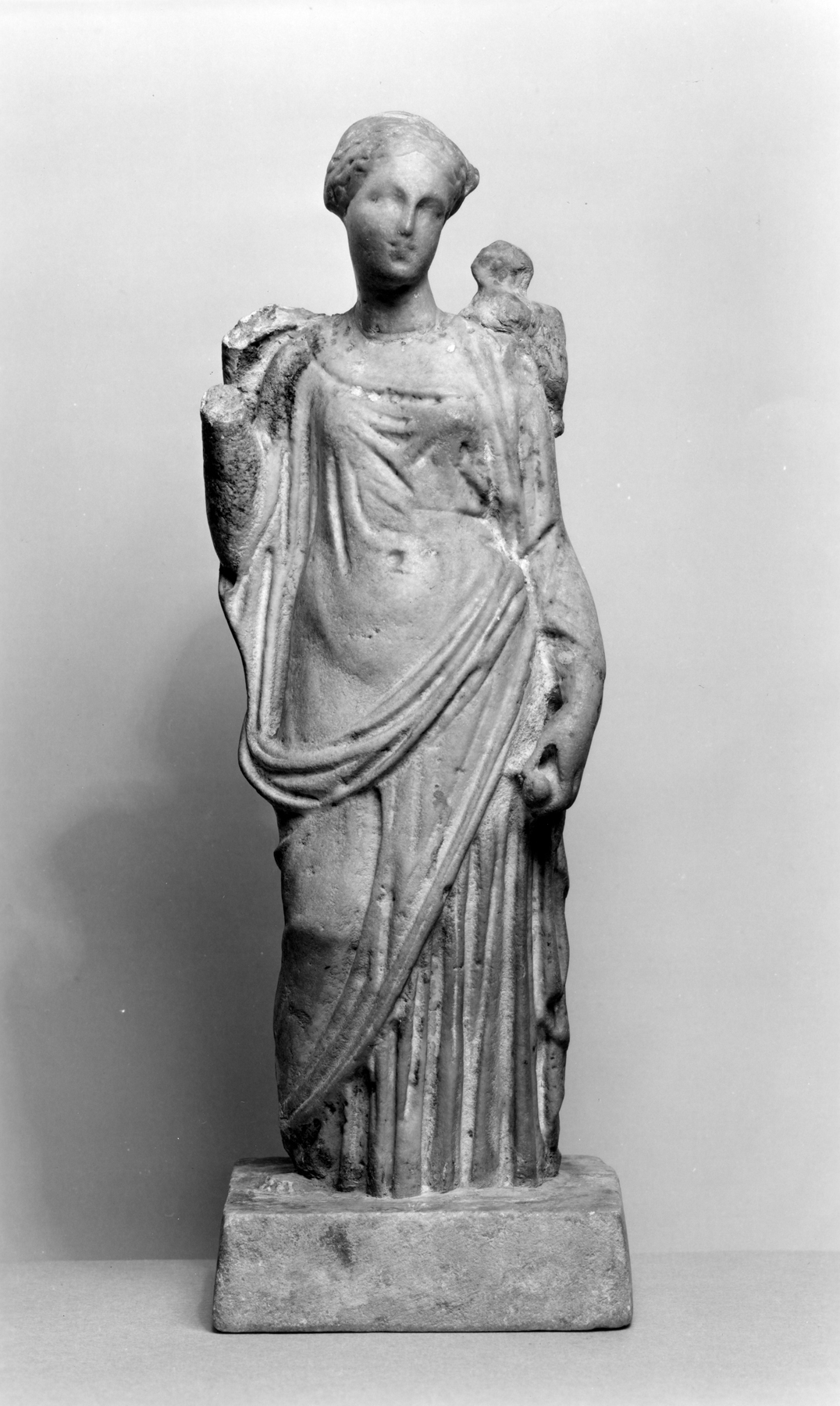 This statuette depicts Venus Genetrix with a child. The piece has been repaired at the neck, and the head may not belong. There are additional fragments of the child with no joining. The right hand and top of head are missing.